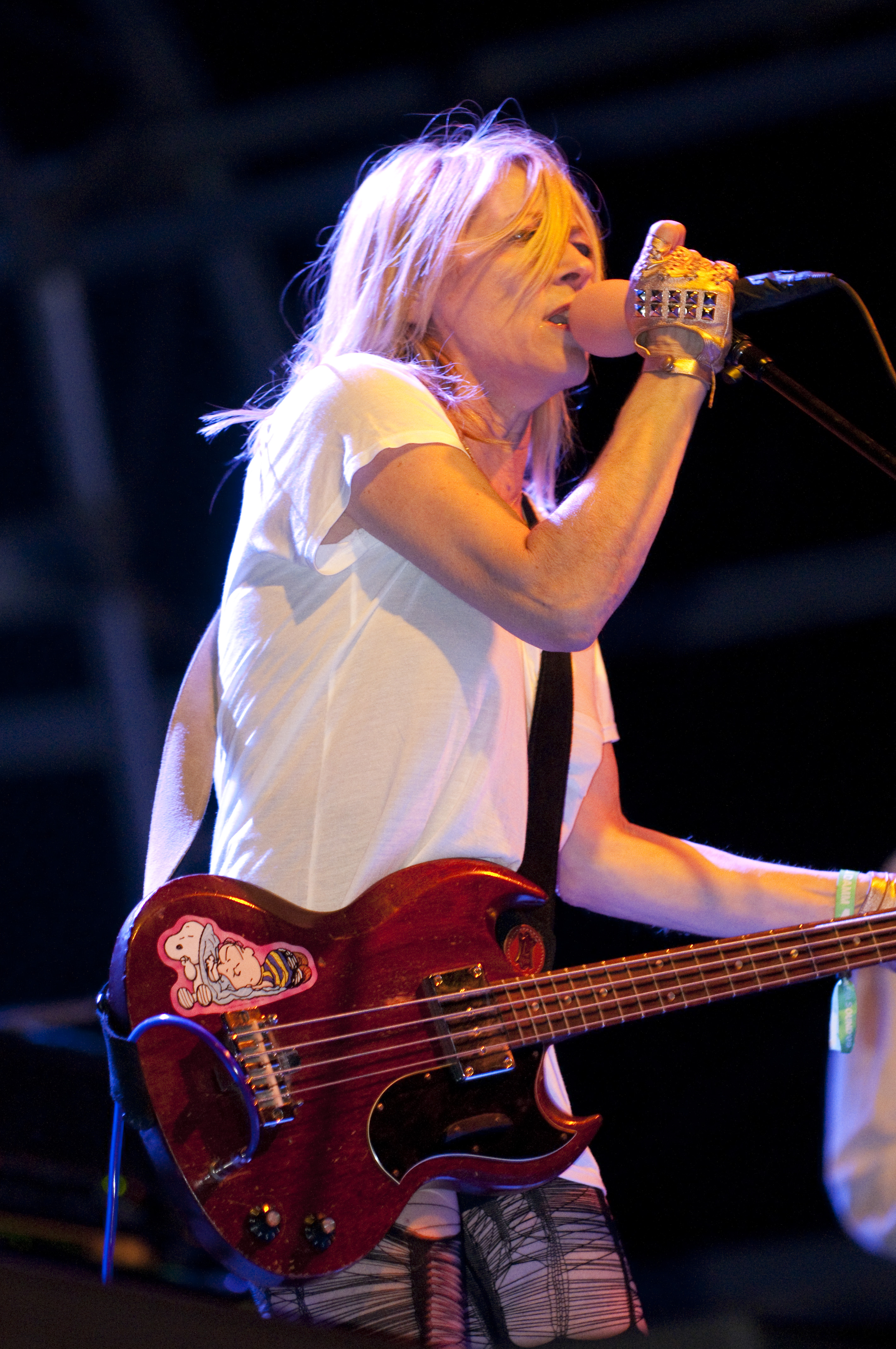 Sonic Youth